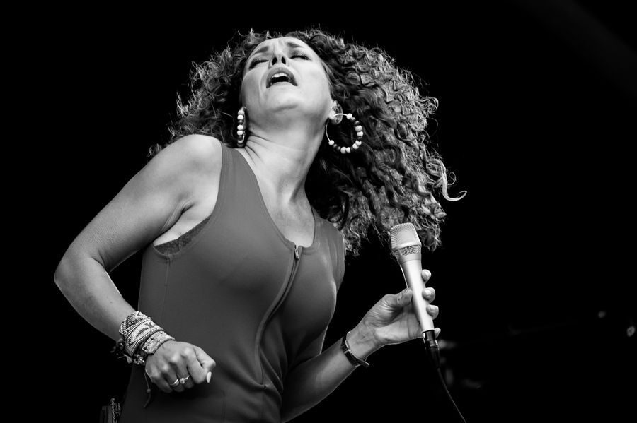 Beate Lech with Beady Belle by the Carp pond at Akershus Festning. The concert was part of Oslo Jazzfestival and took place on 13. August 2017 in Oslo. Lineup:Beate Lech (vocal)Anja Martine Mørk (backing vocal)Sofie Tollefsbøl (backing vocal)Anders Aarum (piano)Marius Reksjø (bass guitar)Andreas Bye (drums)